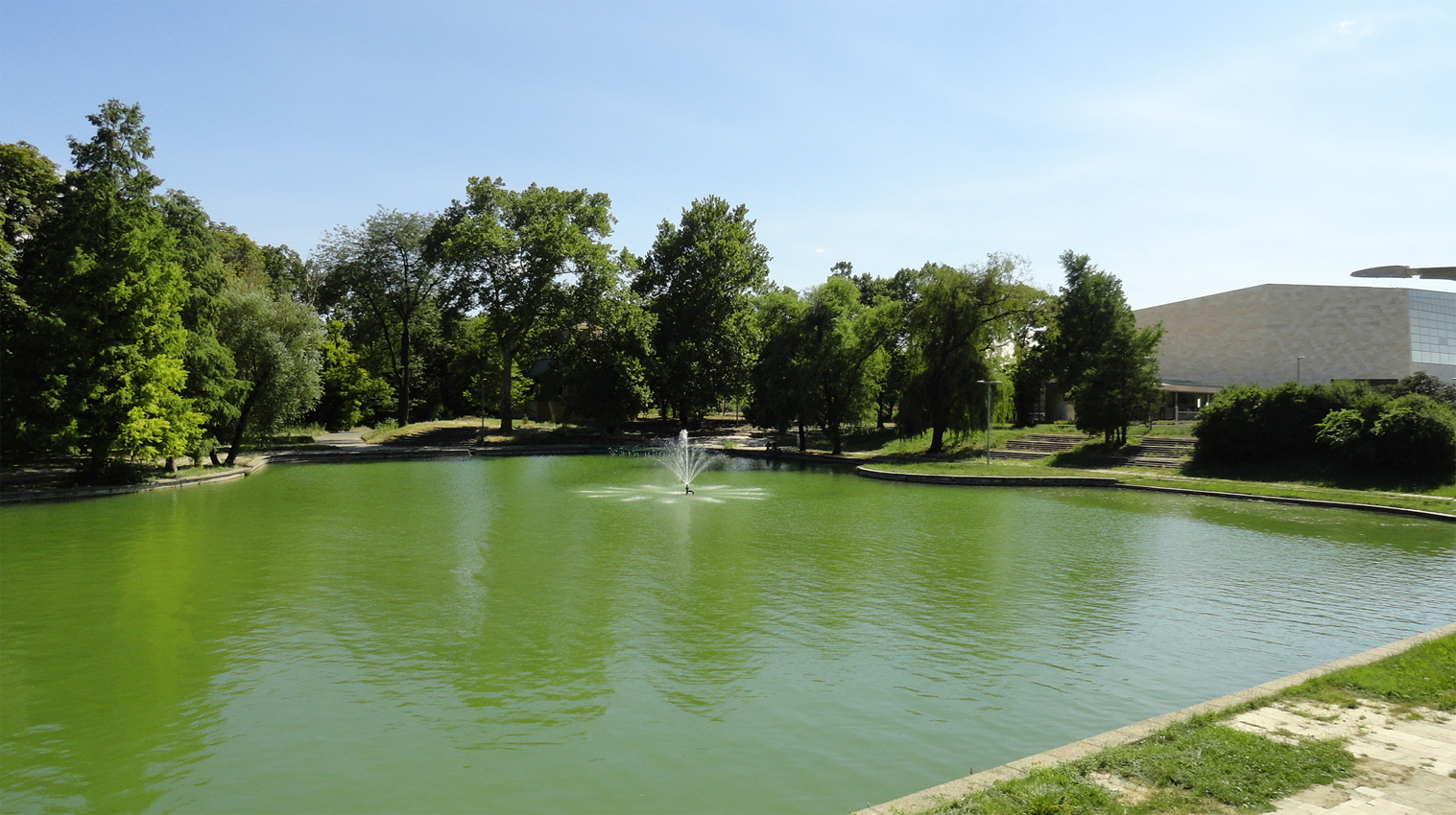 Lake Balokány in Pécs (Baranya County, Hungary)